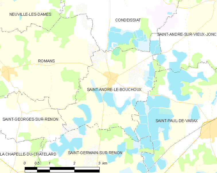 Map of French commune: Saint-André-le-Bouchoux Map commune FR insee code 01335.png